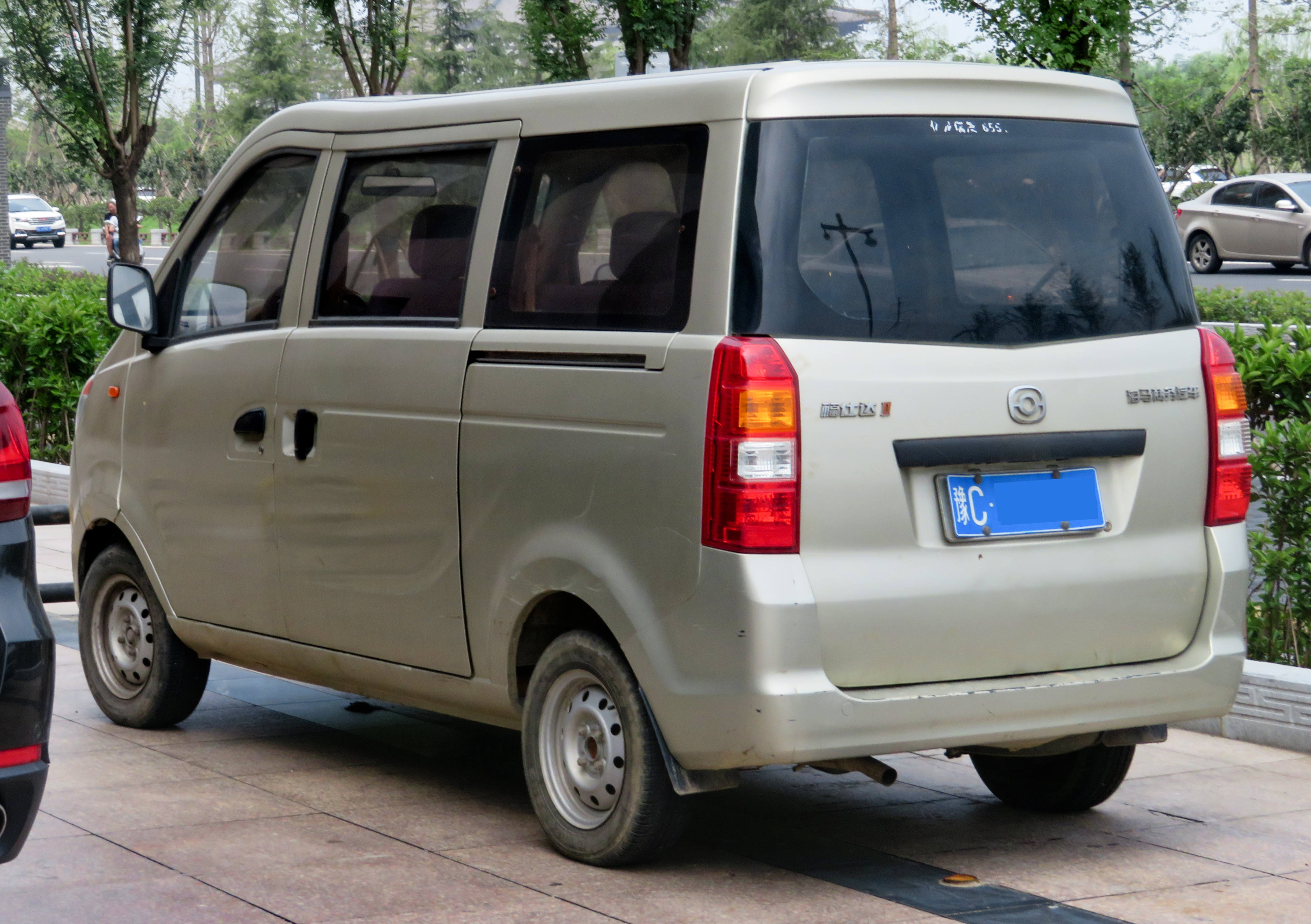 A 2014 Haima Fushida II (Fstar) photographed in Luolong District, Luoyang, Henan province, China